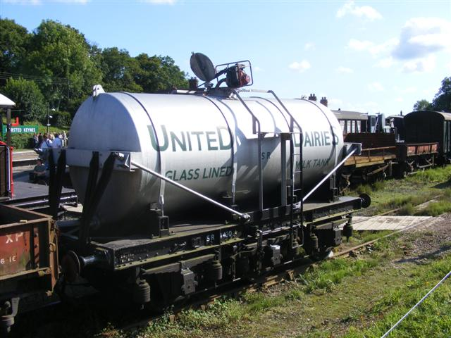 United dairies 6-wheel milk tank